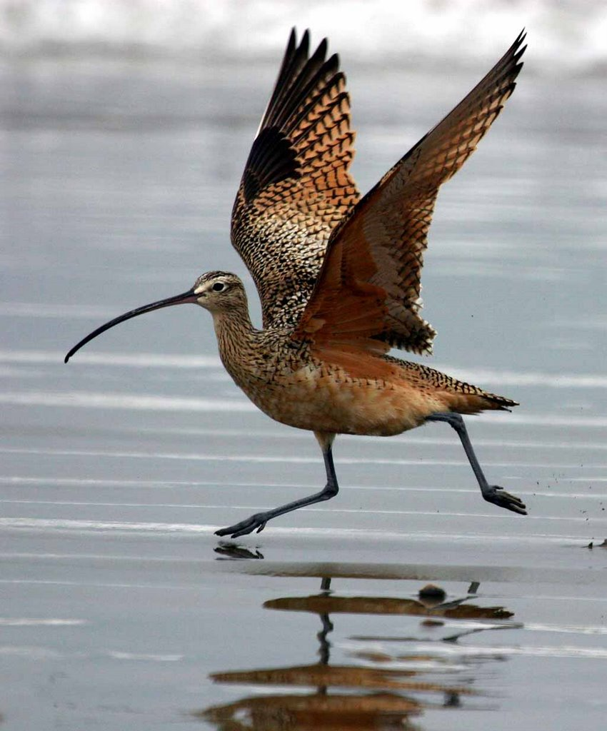 Long-billed Curlew (Numenius americanus, Morro Strand State Beach, Morro Bay, CA